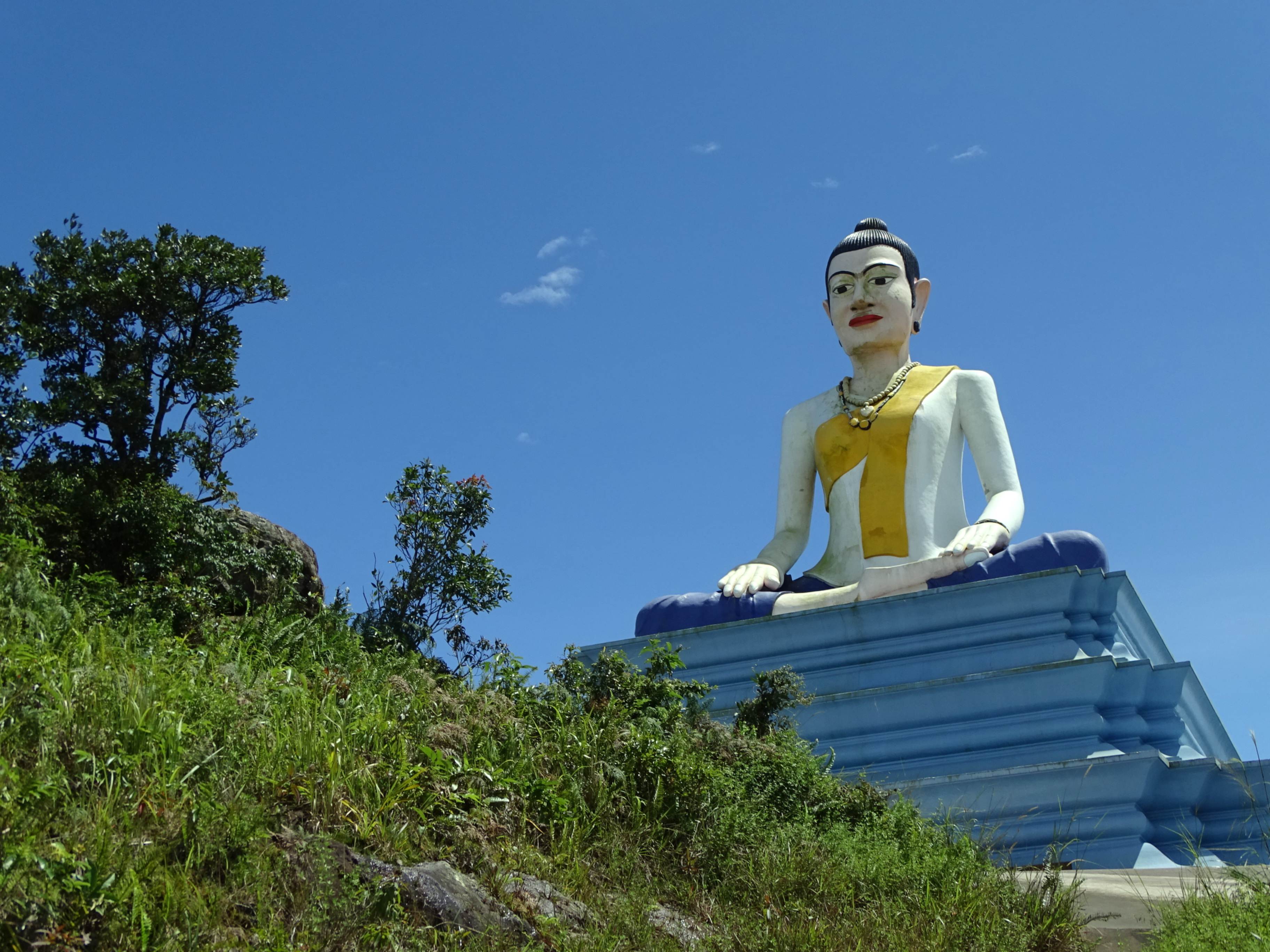 Sculpture of Buddhist Goddess Lok Yeay Mao - Bokor Hill Station - Near Kampot - Cambodia